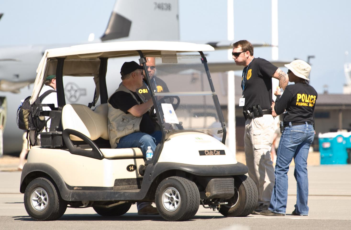 Air Force Office of Special Investigations agents at a United States Air Force base